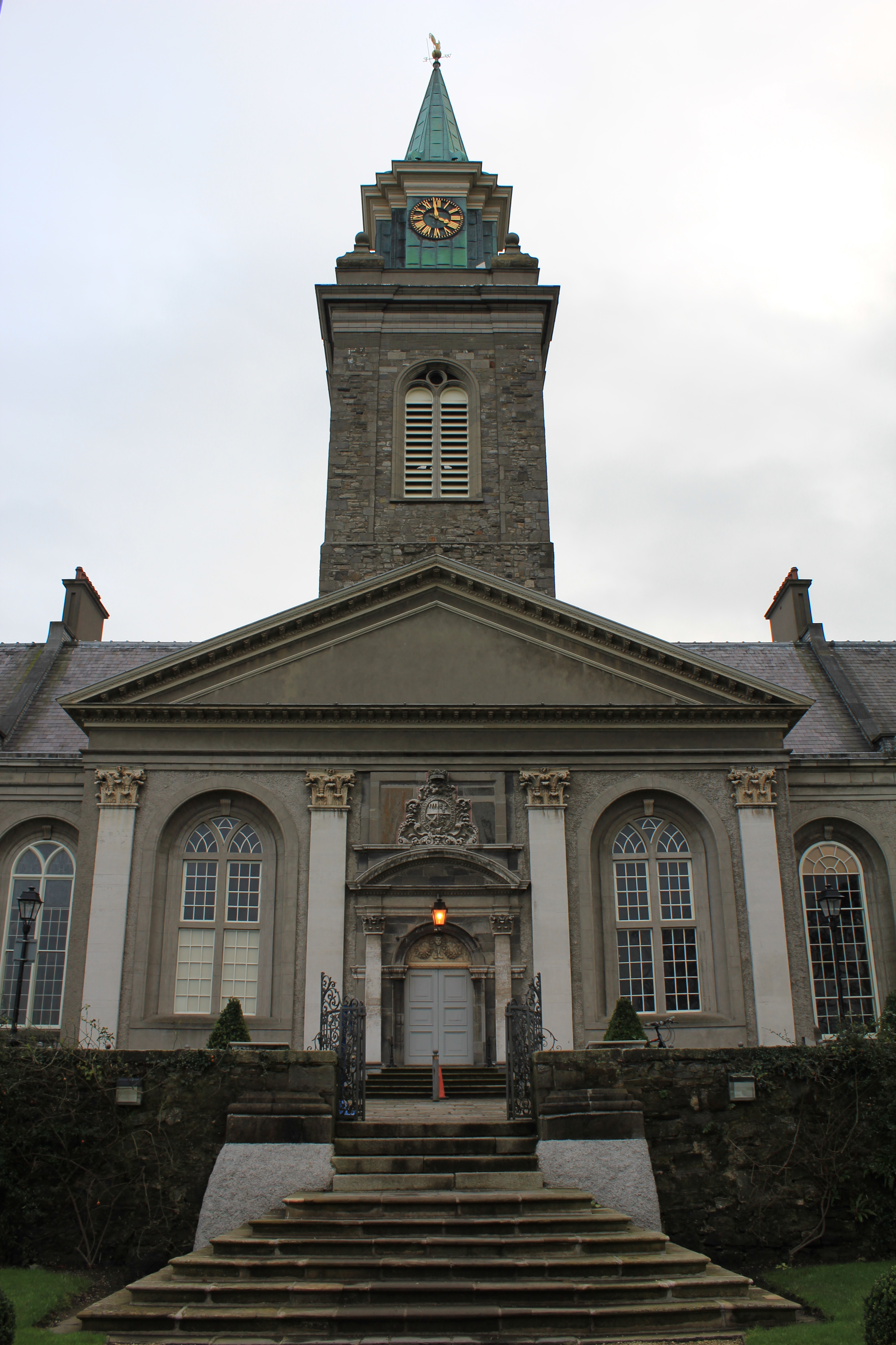 View of the northside of The Royal Hospital, Kilmainham, Dublin.